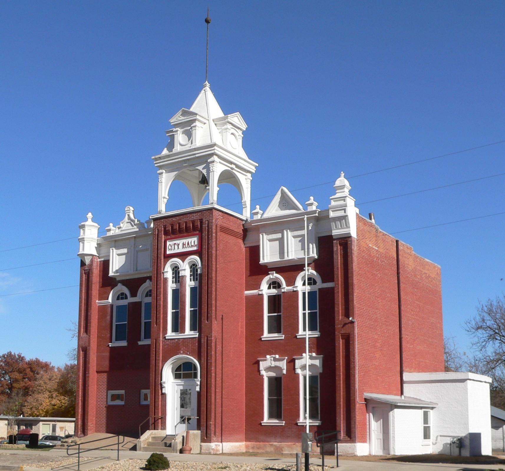 Tecumseh, Nebraska city hall, seen from the southwest.